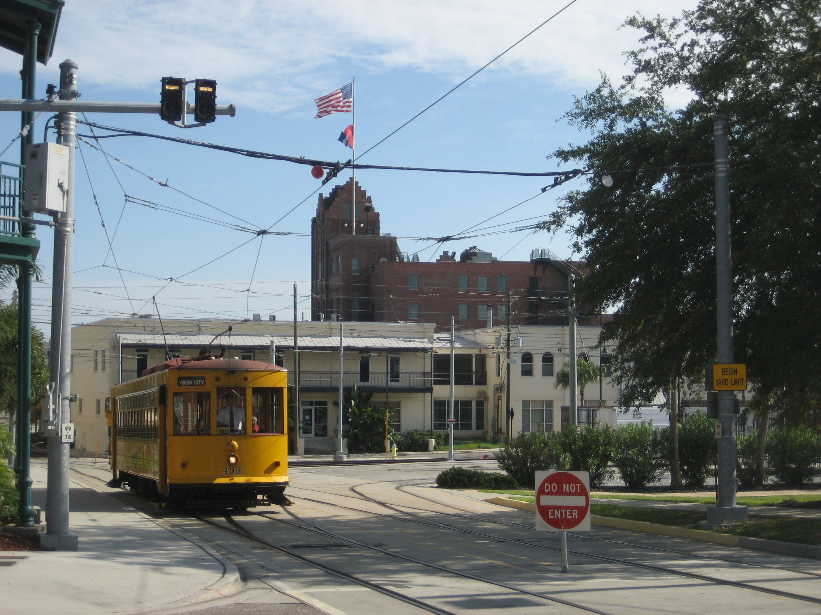 Streetcar, Ybor City section of Tampa, Florida